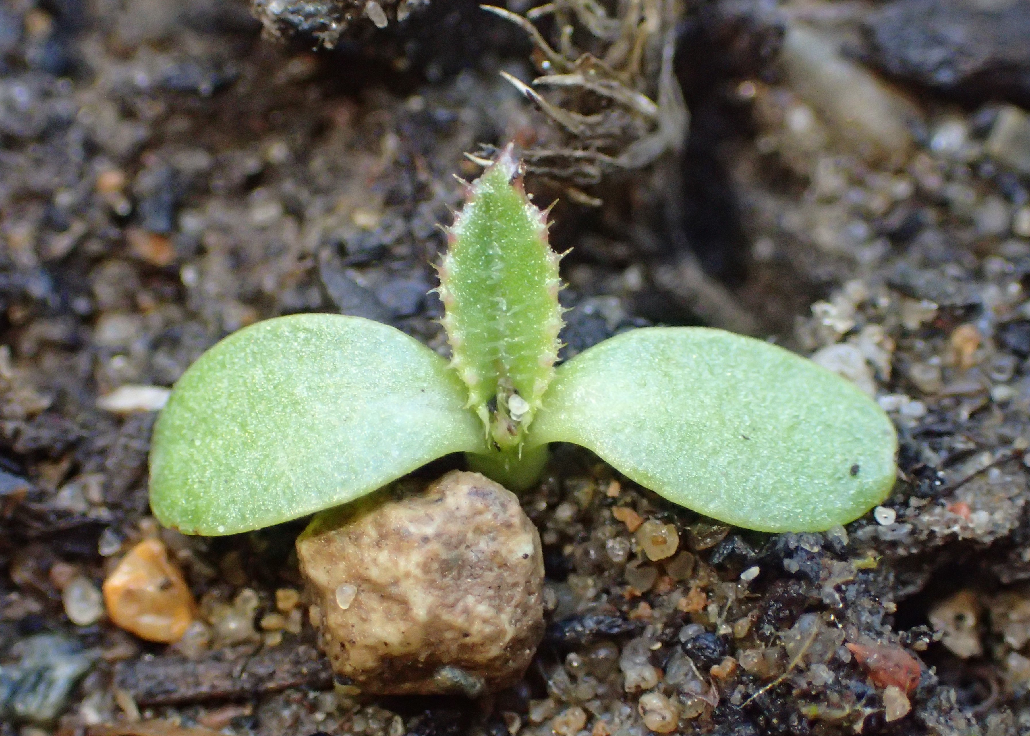 Cirsium acaule seedling in the Botanischer Garten, Berlin-Dahlem